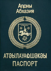 A passport of a citizen of the Abkhaz Republic.